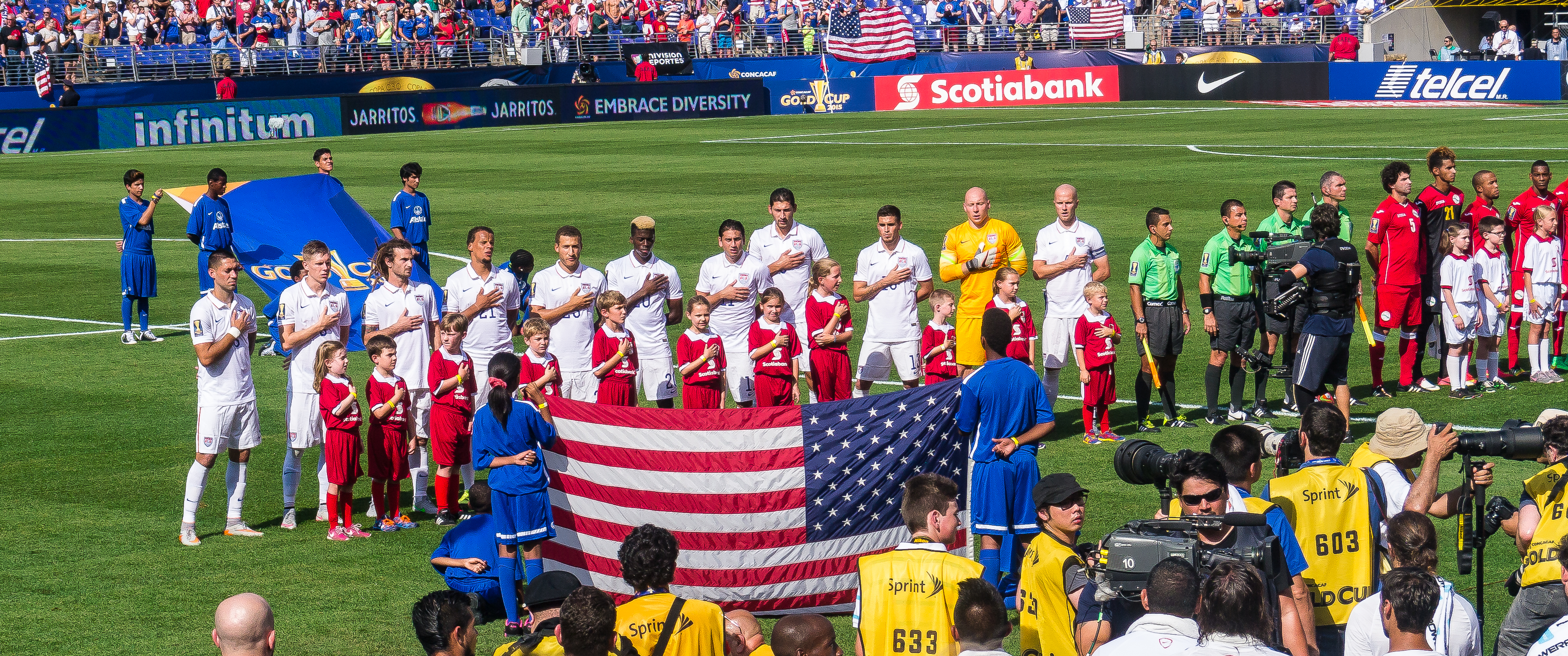 USMNT Gold Cup Baltimore